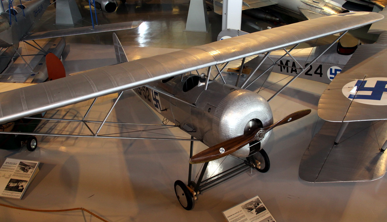 Morane-Saulnier MS 50C (MS-52) in Aviation Museum of Central Finland.